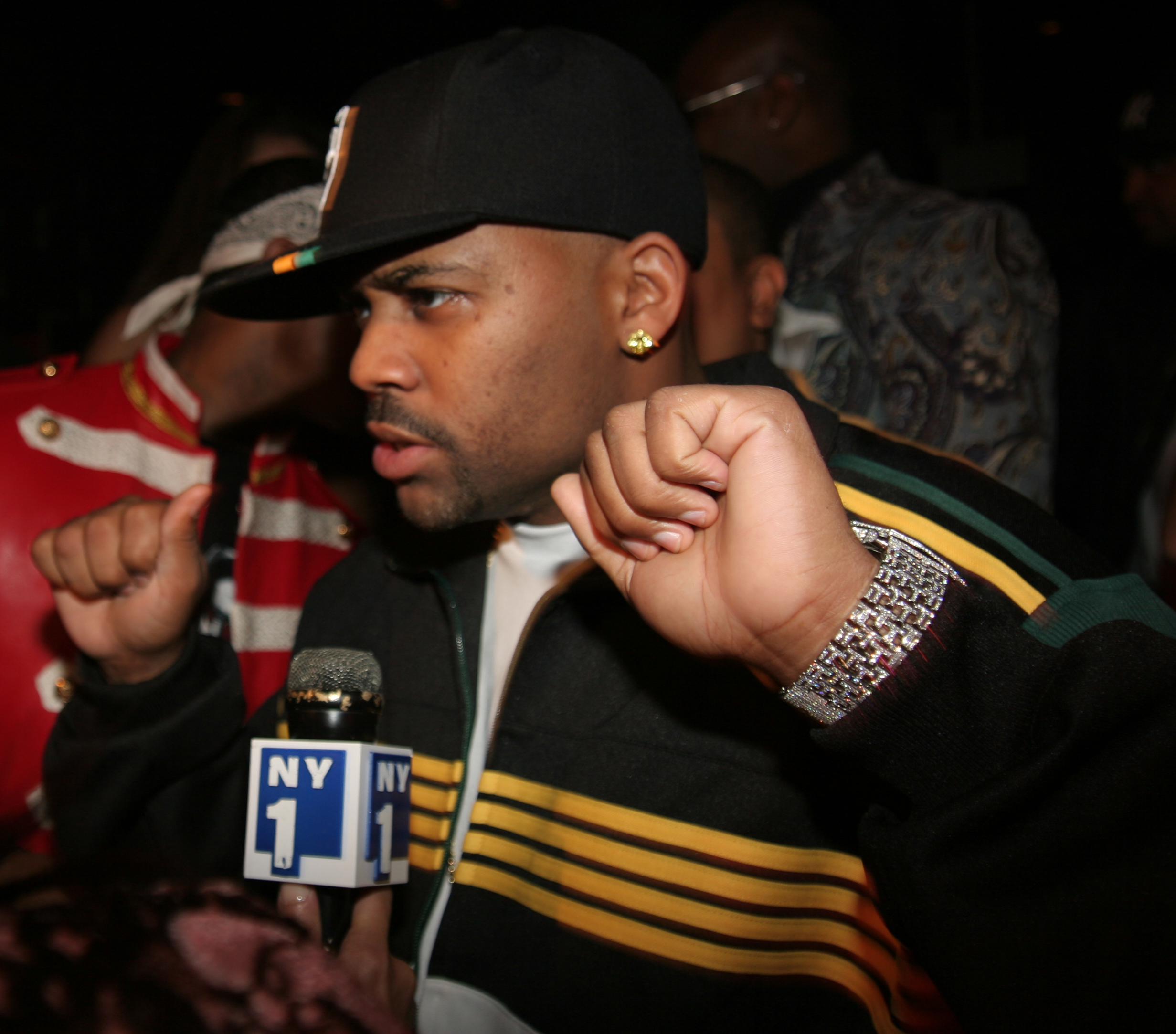 Damon Dash in February 2005.